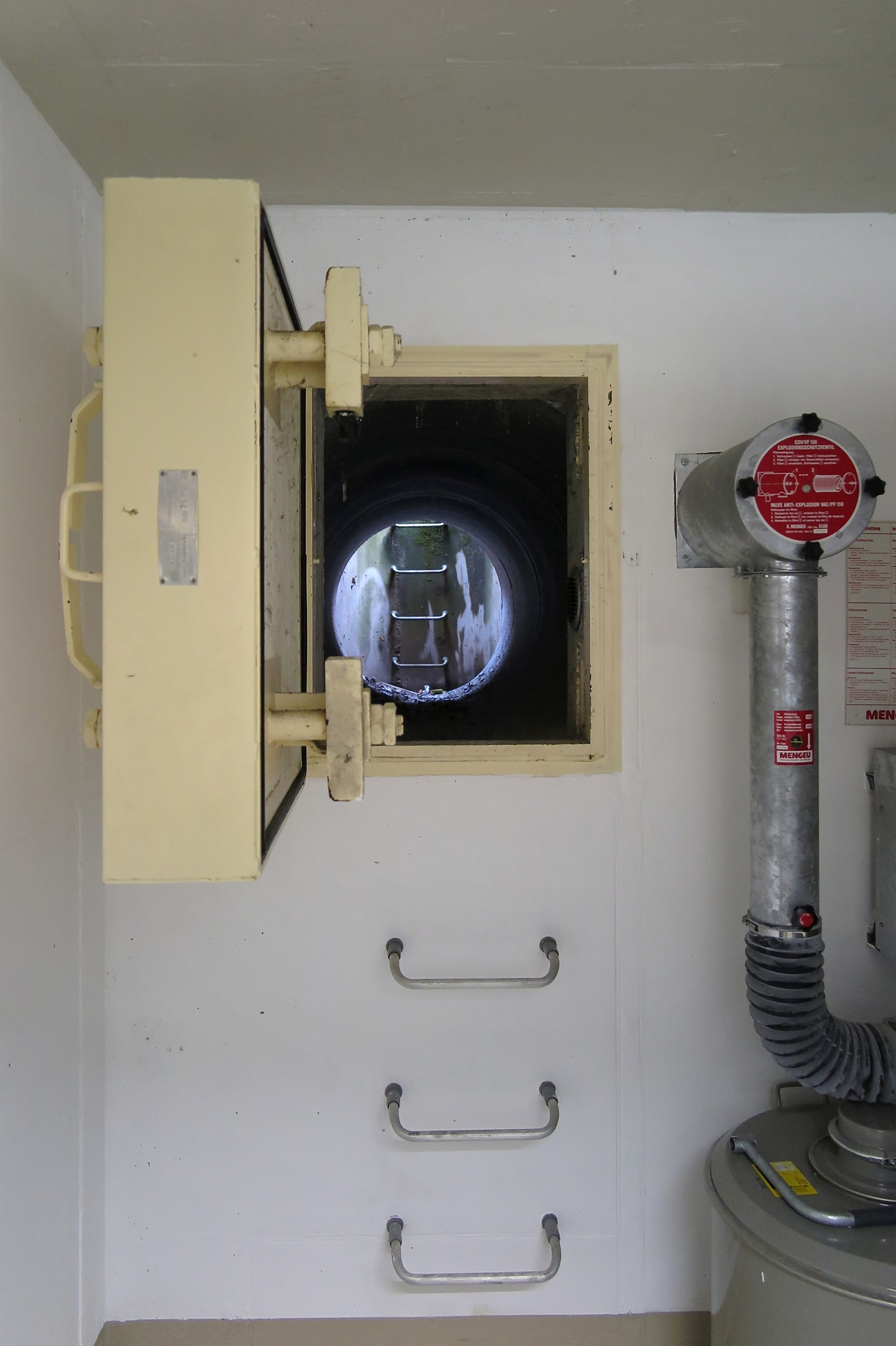 One of the emergency exits inside. Berneck, Switzerland, Nov 19, 2014. (36/43)